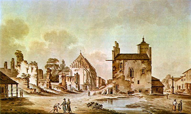 Market Square in Olkusz (Poland), 1792